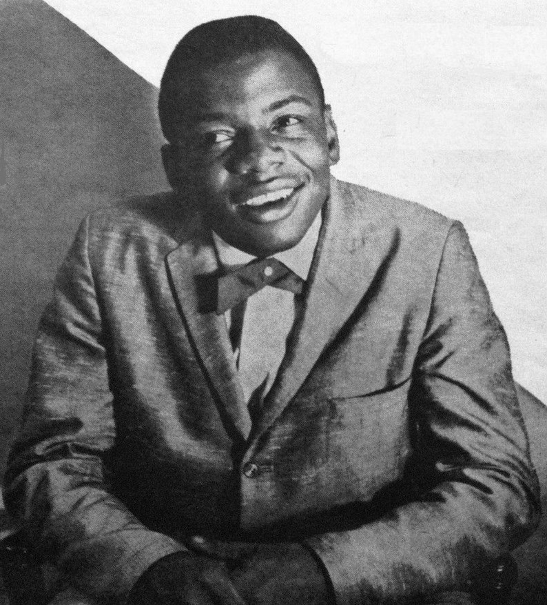 Photo of Ron Holden from the magazine Hit Parader from September 1960.